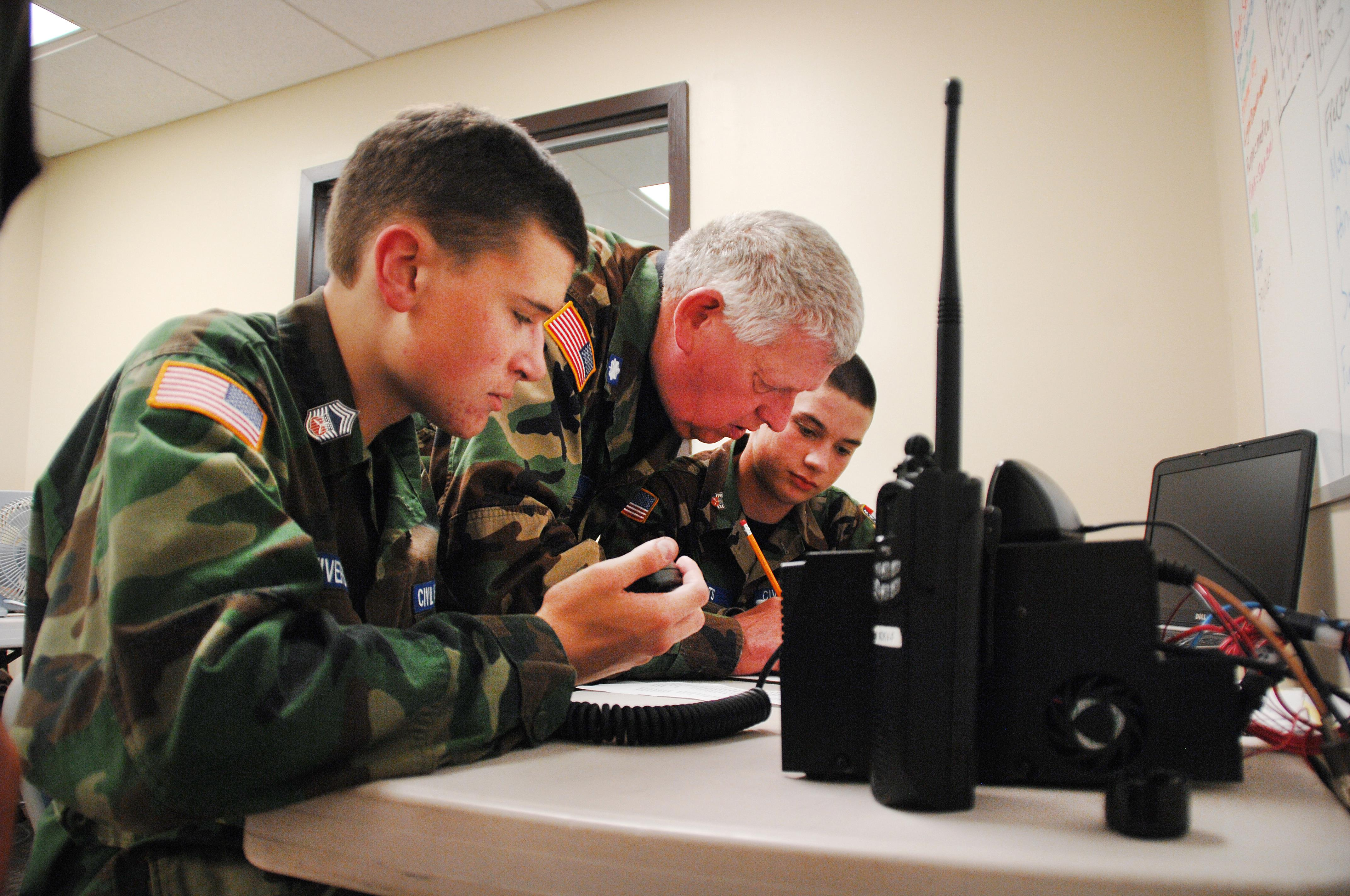 MARINE CORPS LOGISTICS BASE ALBANY - Lt. Col. James Card, (center), assistant director of communications and licensing officer, Georgia Wing Civil Air Patrol, teaches young cadets how to use communication equipment during Georgia Wing CAP’s weeklong summer encampment at Marine Corps Logistics Base Albany, July 21-25.